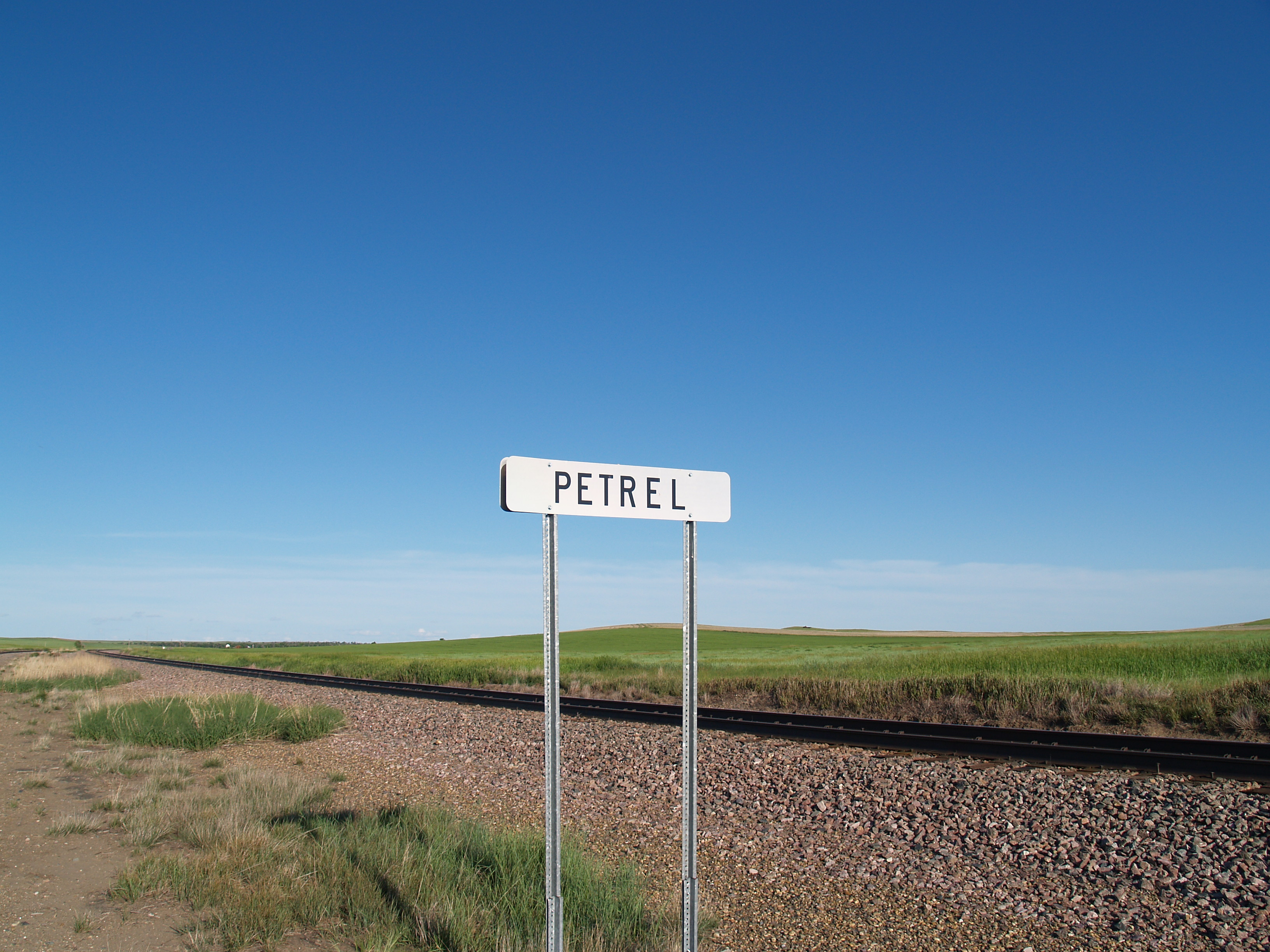 Petrel, North Dakota. From .